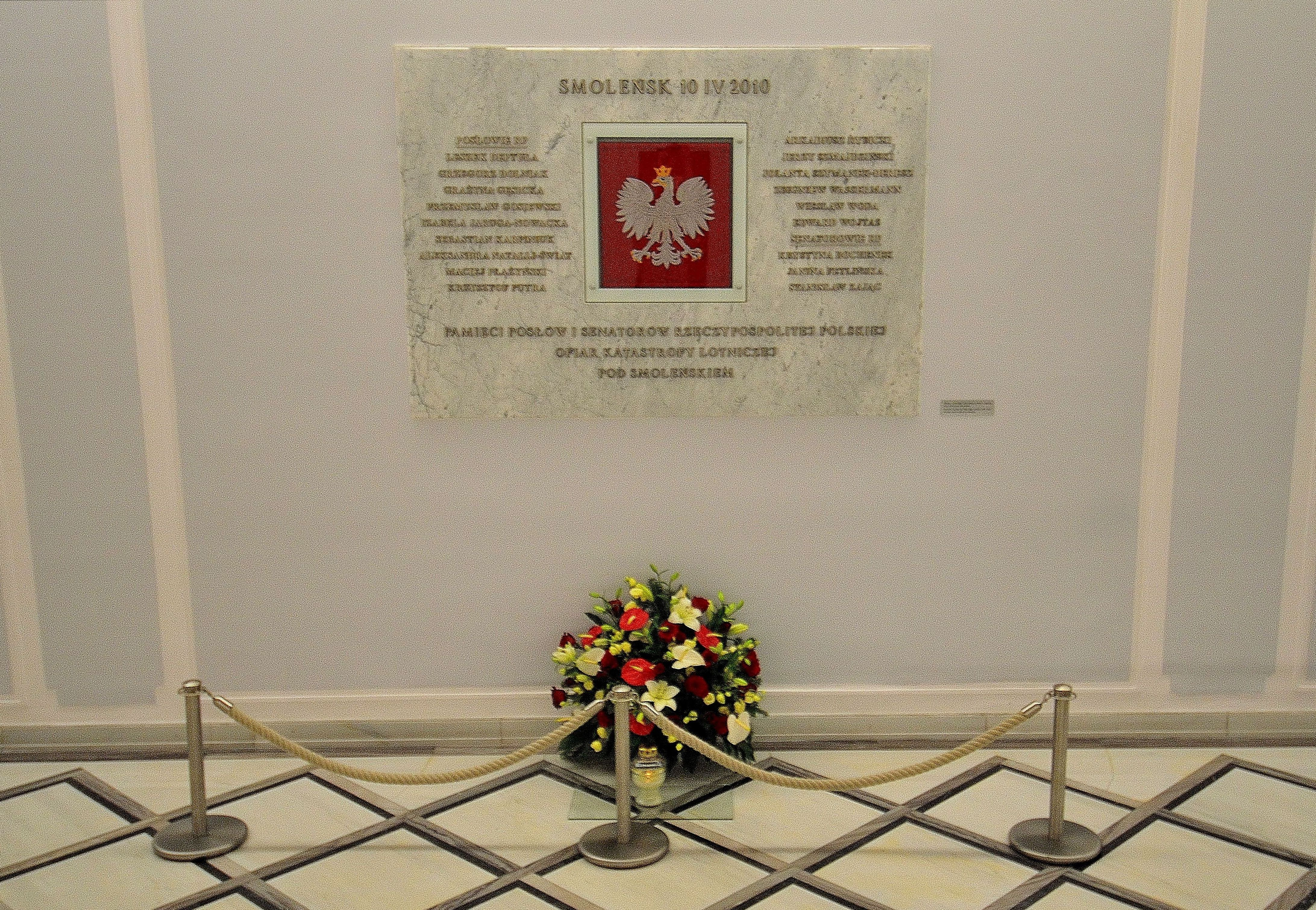 A plaque commemorating the victims of 2010 Polish Air Force Tu-154 crash near Smoleńsk in the Main Hall of the Sejm